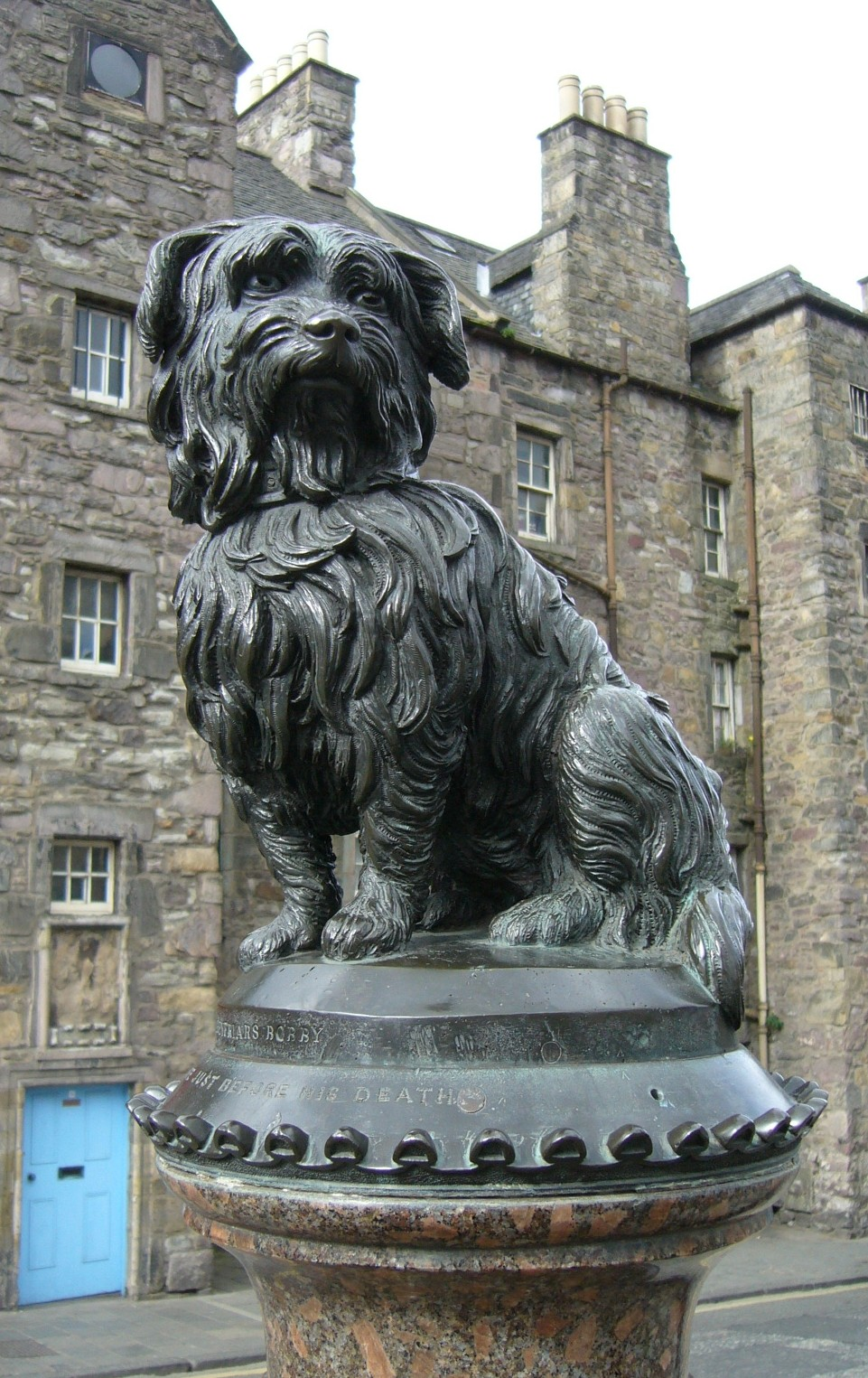 William Brodie's statue of Greyfriars Bobby, Edinburgh